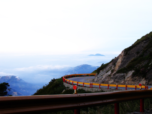 Sea of clouds from the section of Hehuanshan on the Highway No.14A,it located in Nantou Couty,Taiwan.